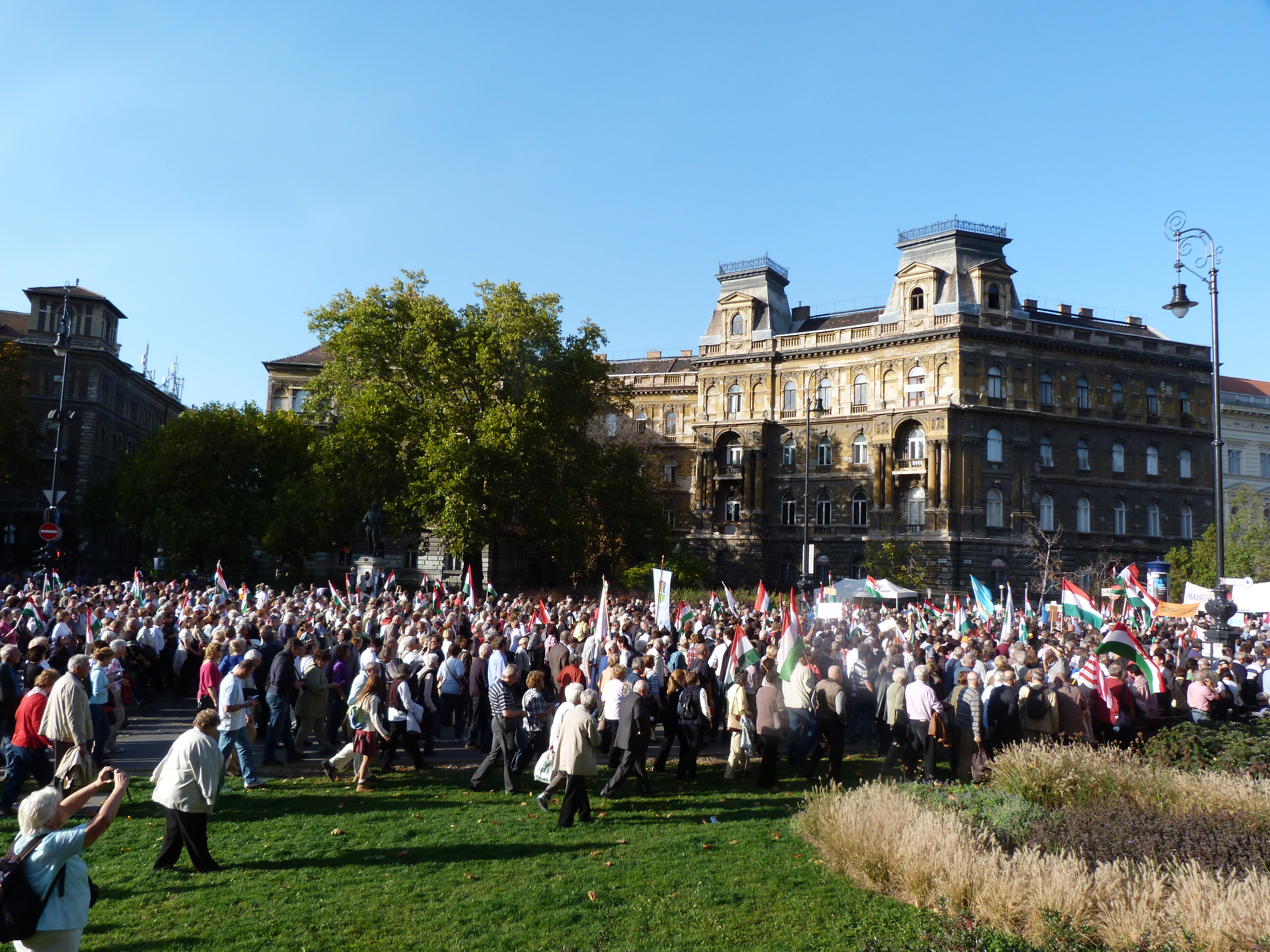 Live on the 23rd of October, 2013. Budapest downtown. The 3rd Peace March for Hungary. Budapest Andrássy út – körút – Oktogon – Andrássy út (Terror Háza) – Körönd – Hősök tere. Pro-goverment demonstration. Sourches: Civil Összefogás Fórum Sajtótájékoztató a 2013. október 23-ai Békemenetről Több százezren a Hősök terén ©© Derzsi Elekes Andor, Budapest, 2013, You are authorised to use these photos and vids under Creative Commons – even for commercial, for profit purposes. Photos must be attributed to Derzsi Elekes Andor. All of the photos and vids in the Metapolisz DVD line are under Creative Commons and can be used even for commercial – for profit – purposes. Recommended Citation Derzsi Elekes Andor: Metapolisz DVD line